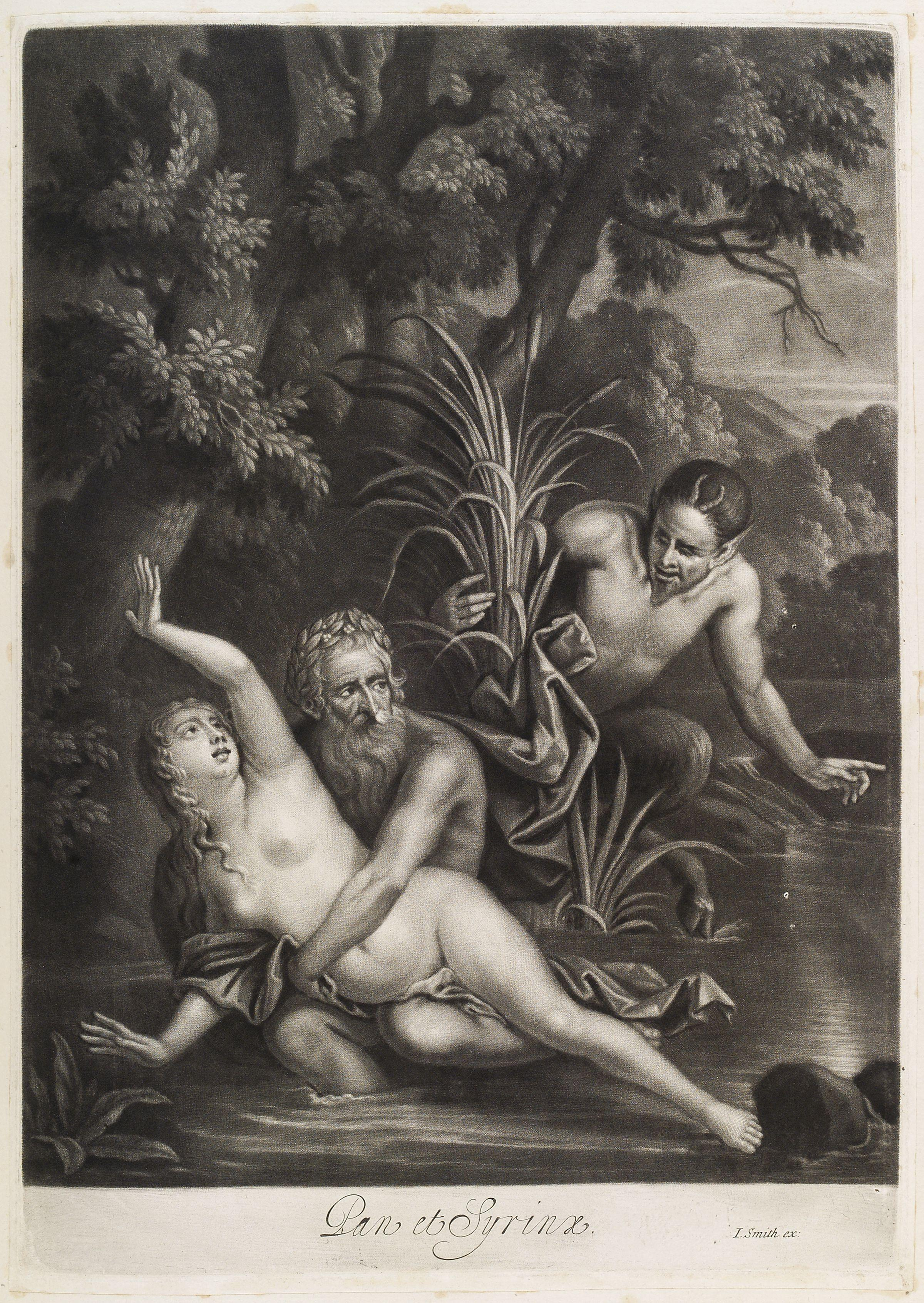 Pan and Syrinx, by Isaac Beckett. All images in this batch have a known author, but have manually examined for strong evidence that the author was dead before 1939, such as approximate death dates, birth dates, floruit dates, and publication dates.